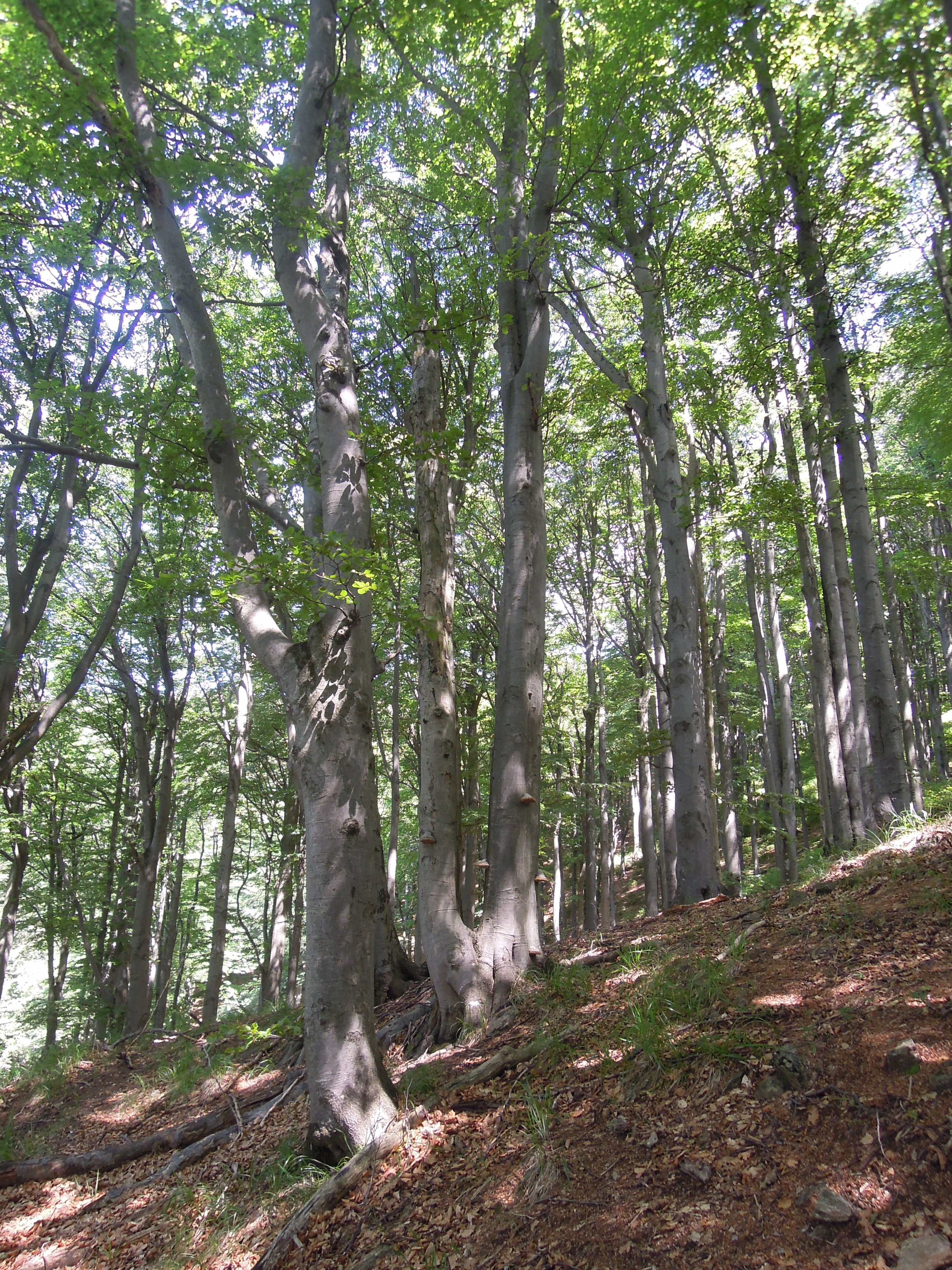 Natural beech forest stand Nature Reserve Považský Inovec. Carpathian mountains. Slovakia.